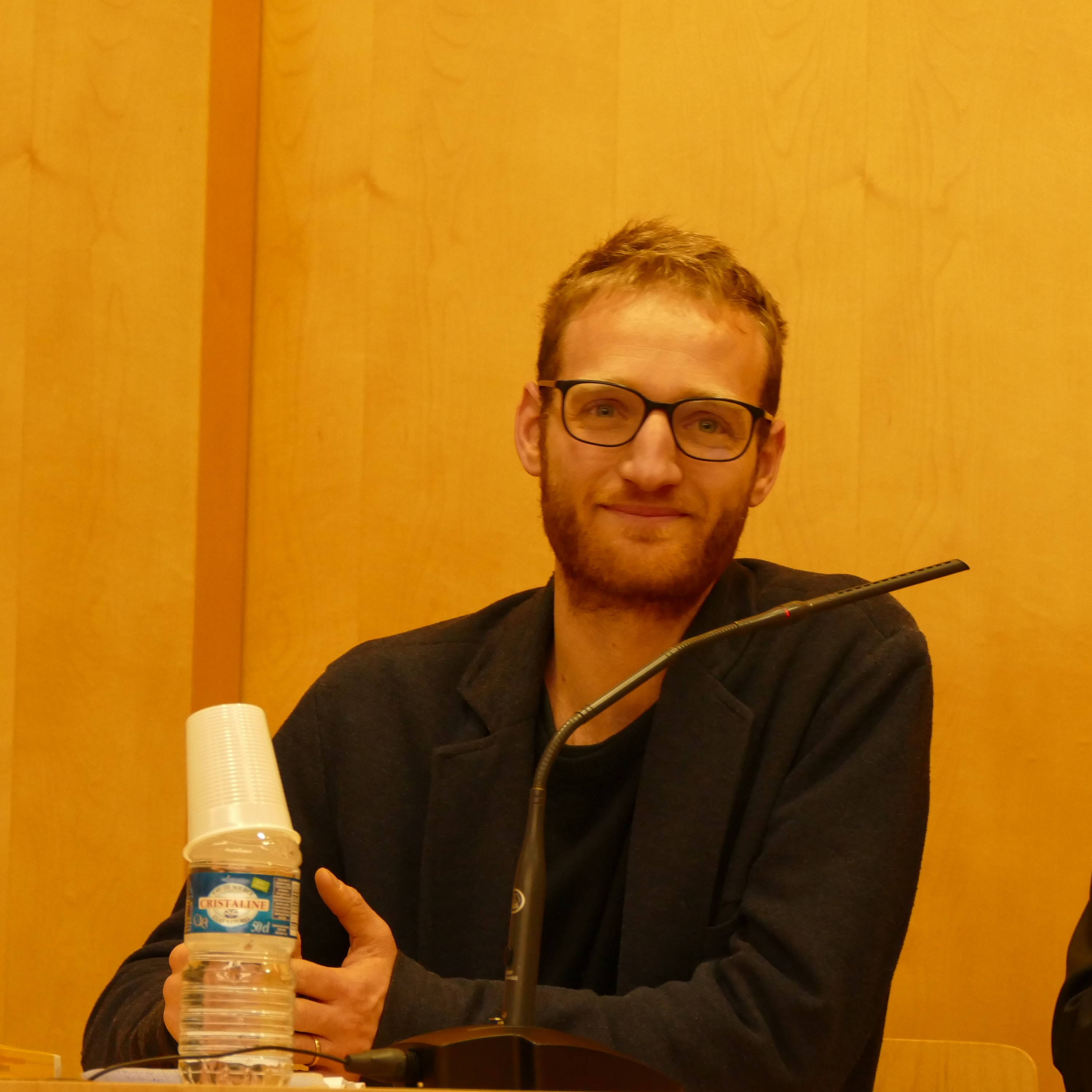 Gaultier Bès during a conference of Chantiers-éducation of AFC in Paris (Île-de-France, France).